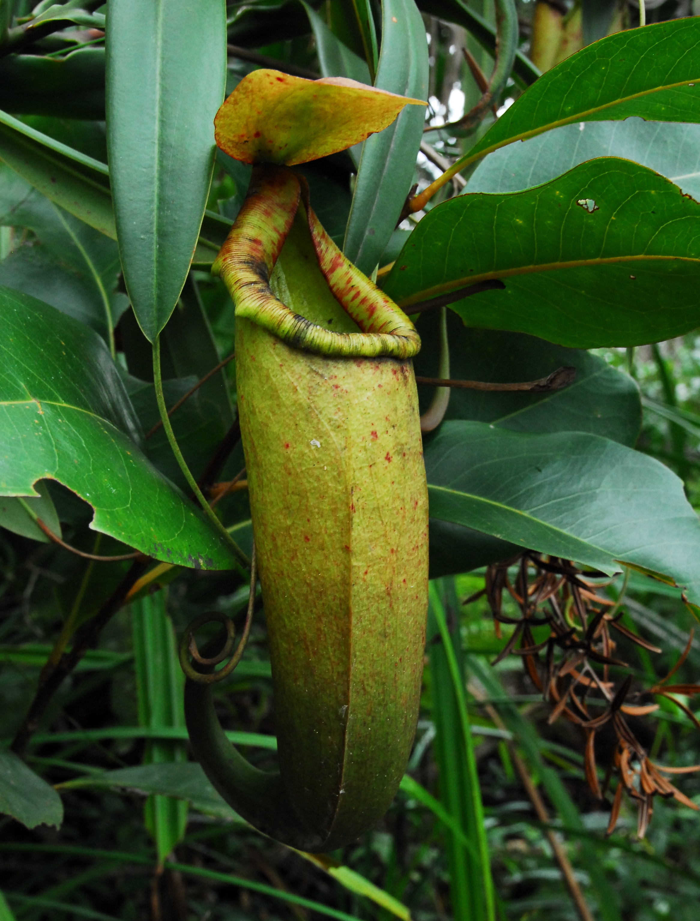 Nepenthes merrilliana upper pitcher from Dinagat Island, Philippines